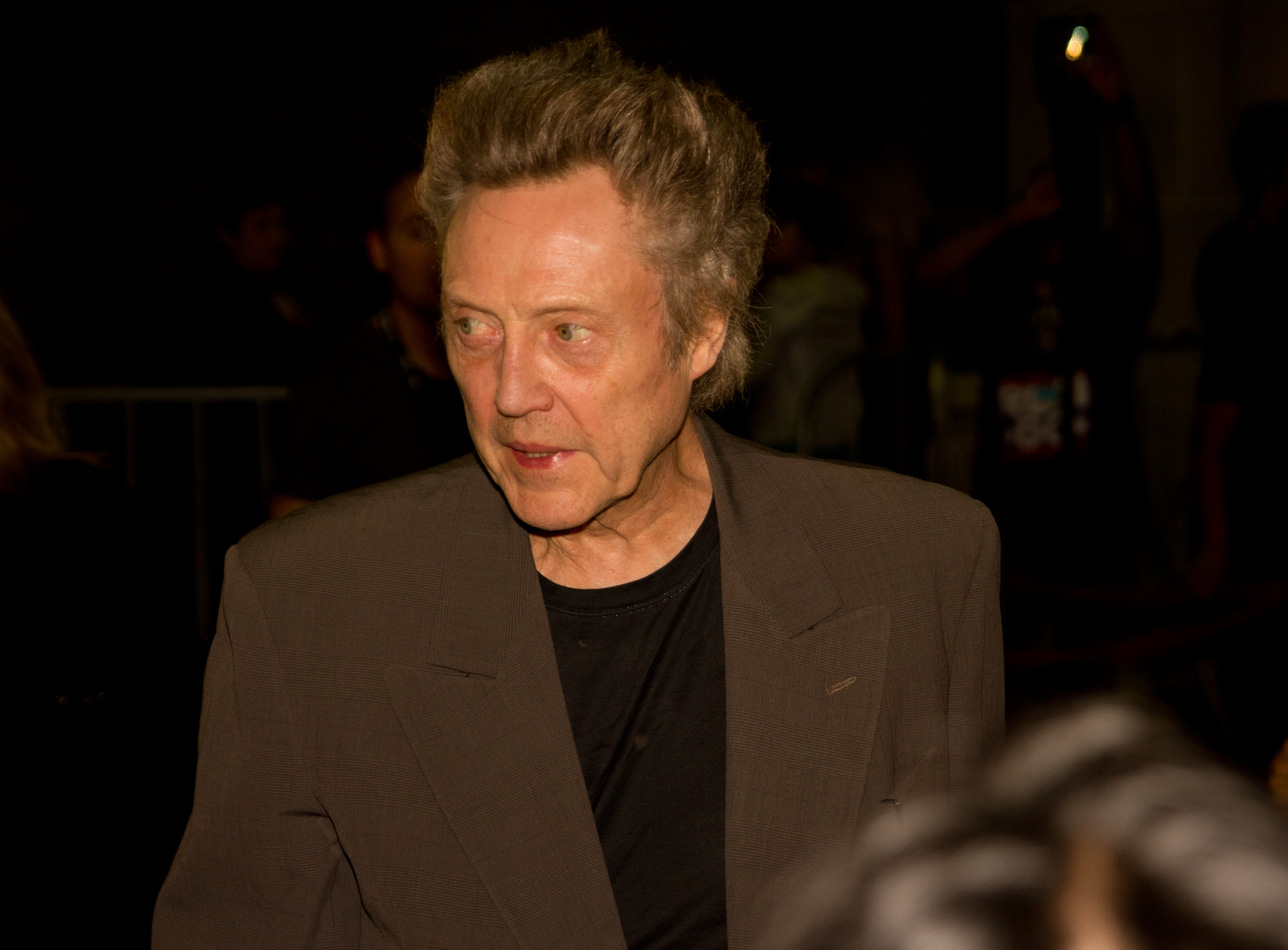 Christopher Walken at the premiere of Seven Psychopaths, Toronto Film Festival 2012